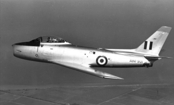 â€” for published photographs where the creator has died at least 70 years ago, or photographs taken prior to 1955.Image is of a prototype aircraft flying in 1953 on test, and is found on